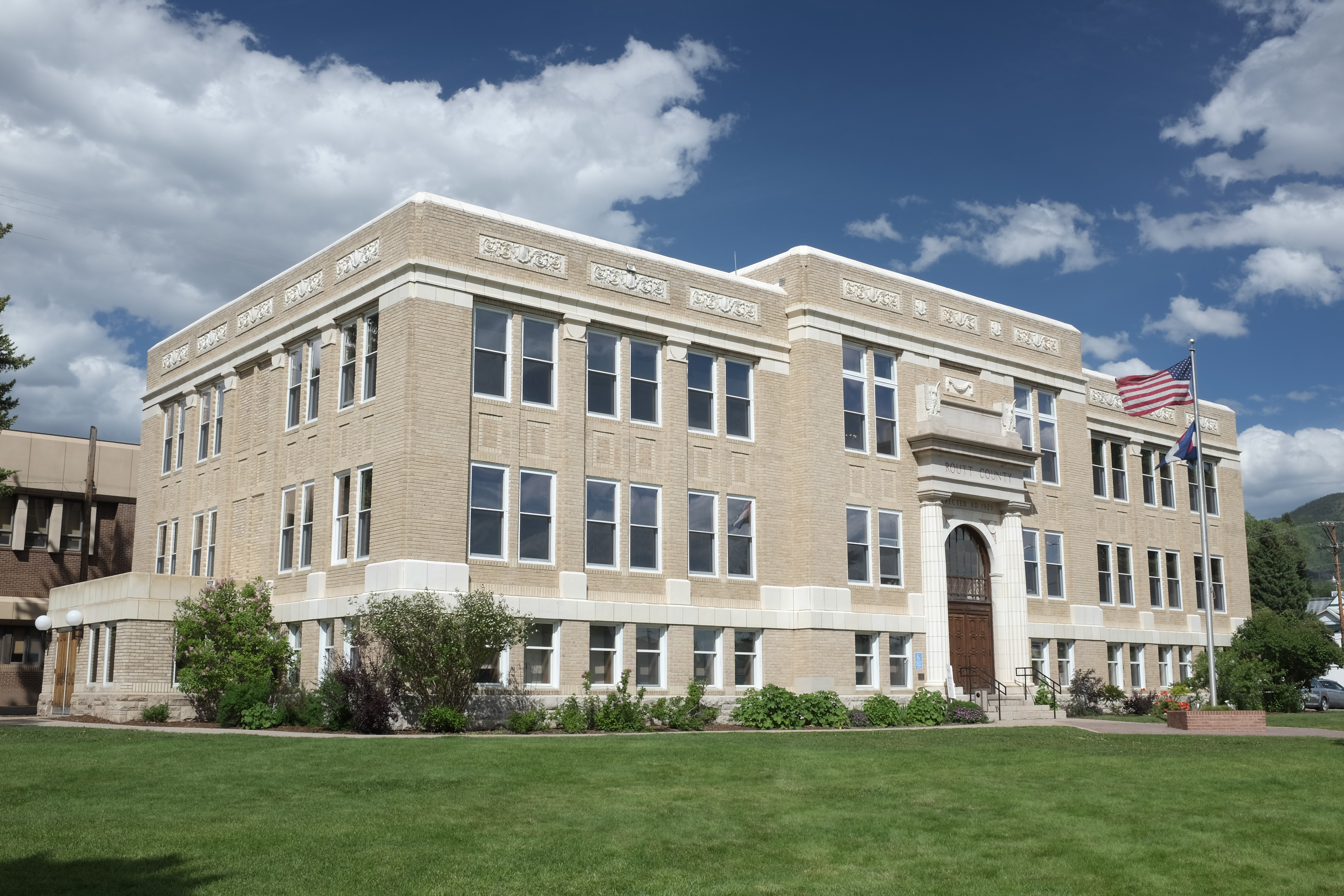 Perspective view of the Routt County Courthouse in Steamboat Springs, Colorado.